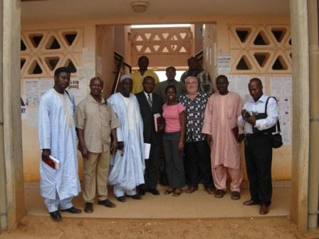 Fulbright International Visitor alumni at the University of Ngaoundéré in the Adamawa Province of Cameroon.